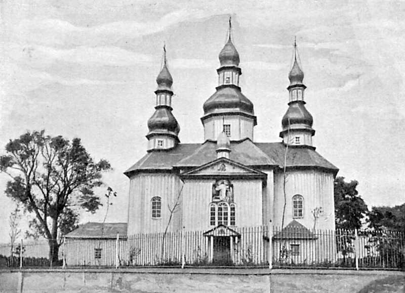 Church in village Brusyliv, Ukraine, which was built in 1711